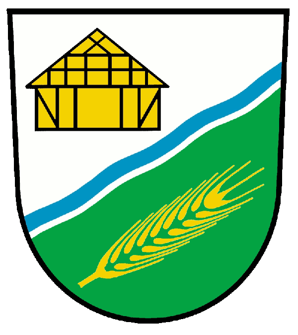 Coat of arms of Nuthe-Urstromtal